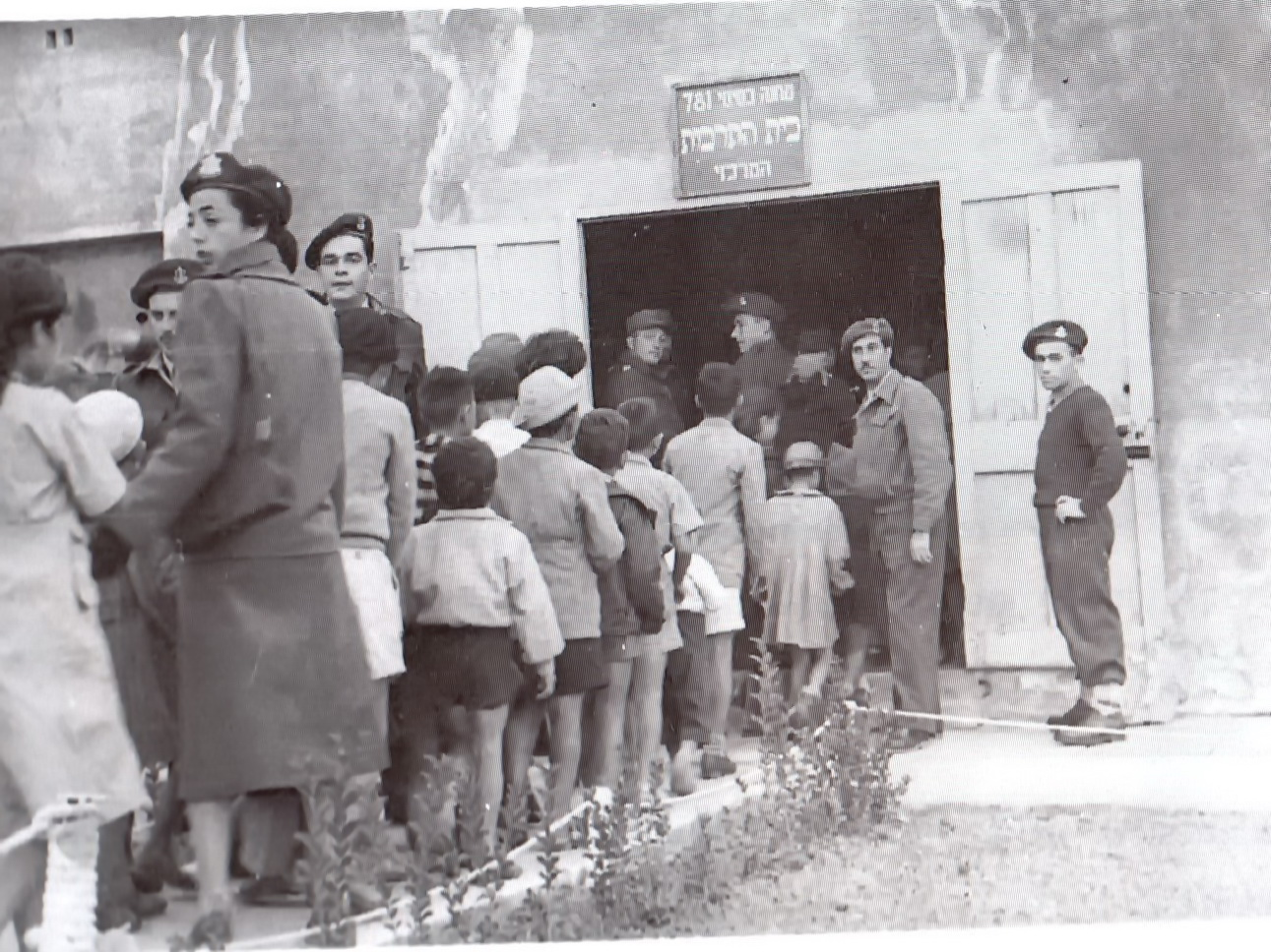 maabara